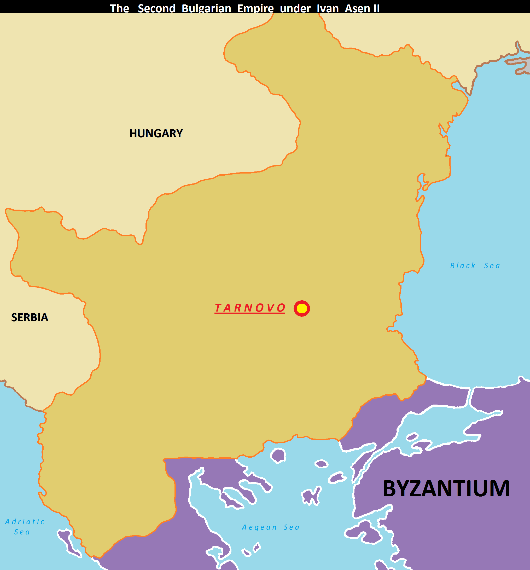 The Second Bulgarian Empire under Ivan Asen II;source